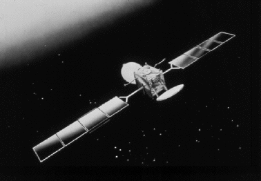 INMARSAR-3 .